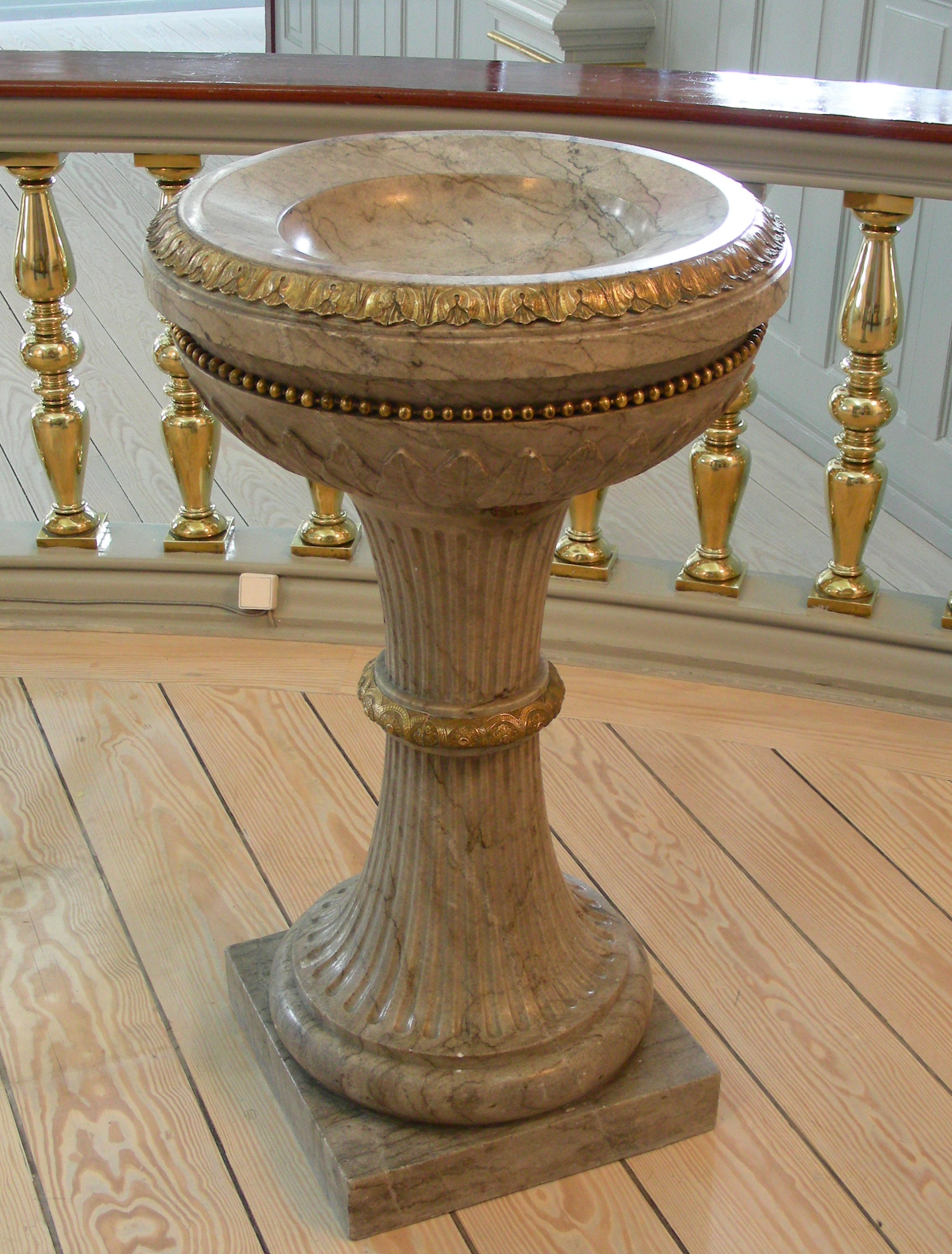 Garnisons Kirke (Garrison Church), Copenhagen, Denmark. Baptismal font.